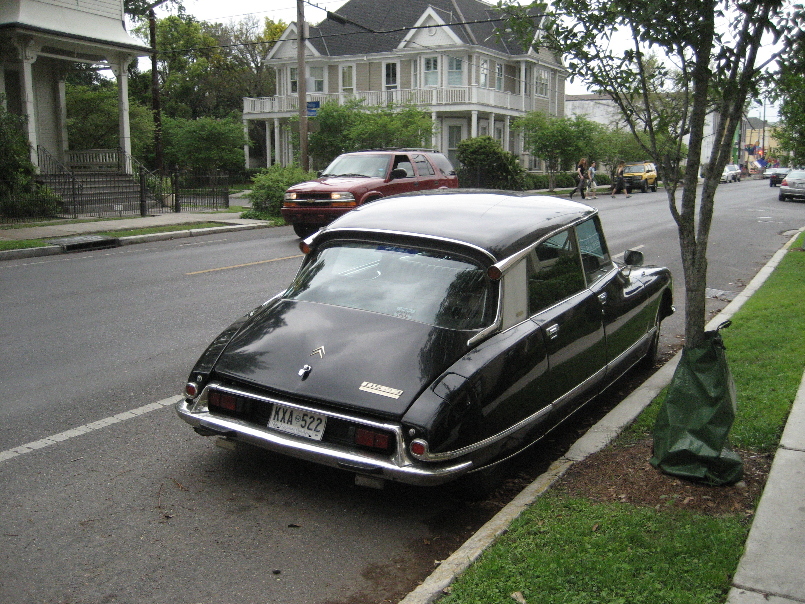 Citroën DS 23 on Magazine Street, New Orleans